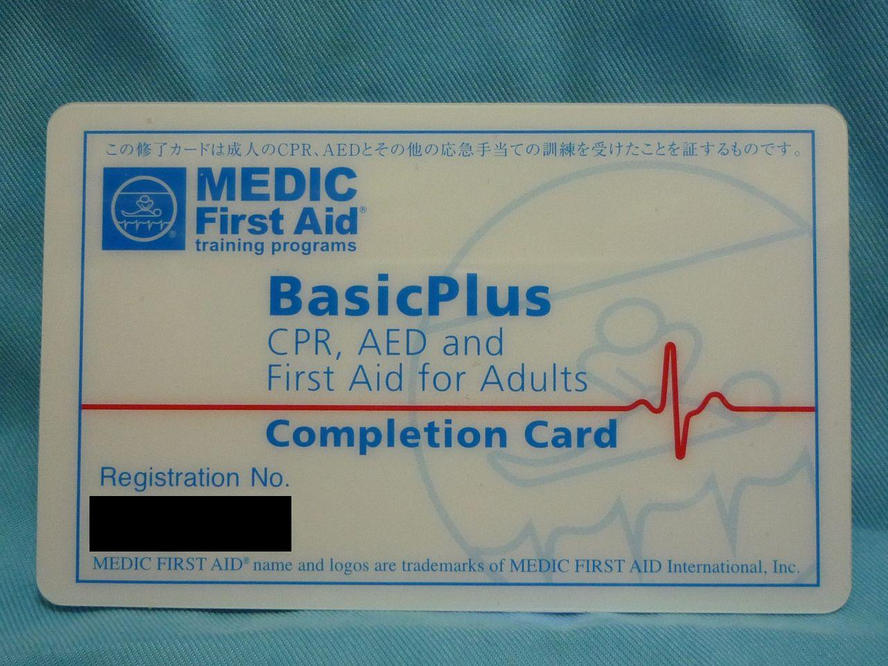 This card certifies that the owner has taken the MEDIC FIRST AID BasicPlus program.